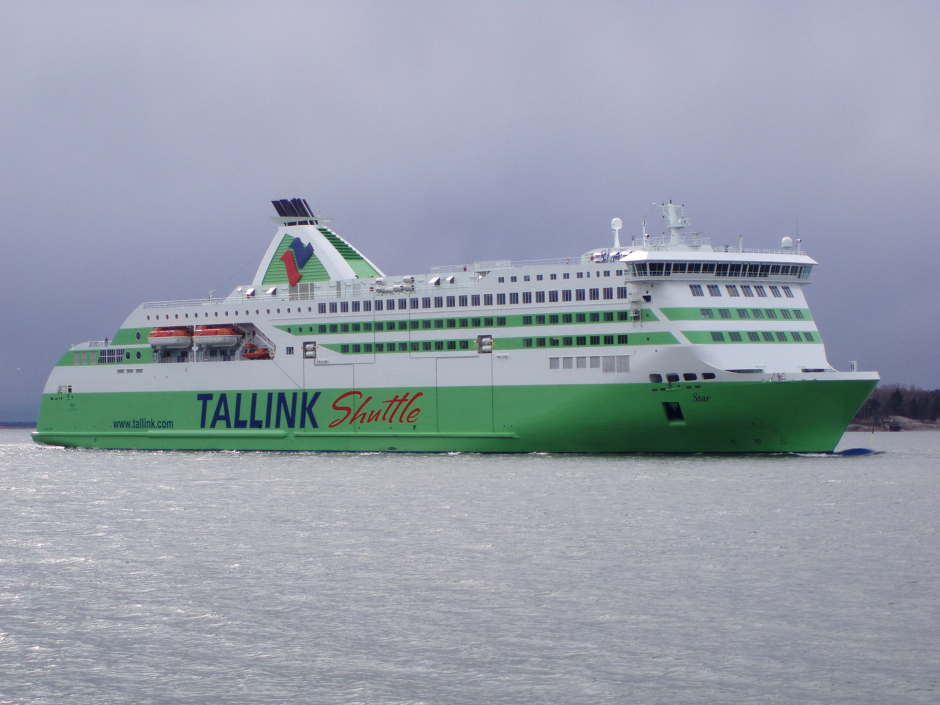 M/S Star, arriving at Helsinki West Harbour on 19. April 2007. Picture taken and uploaded by Kalle Id.